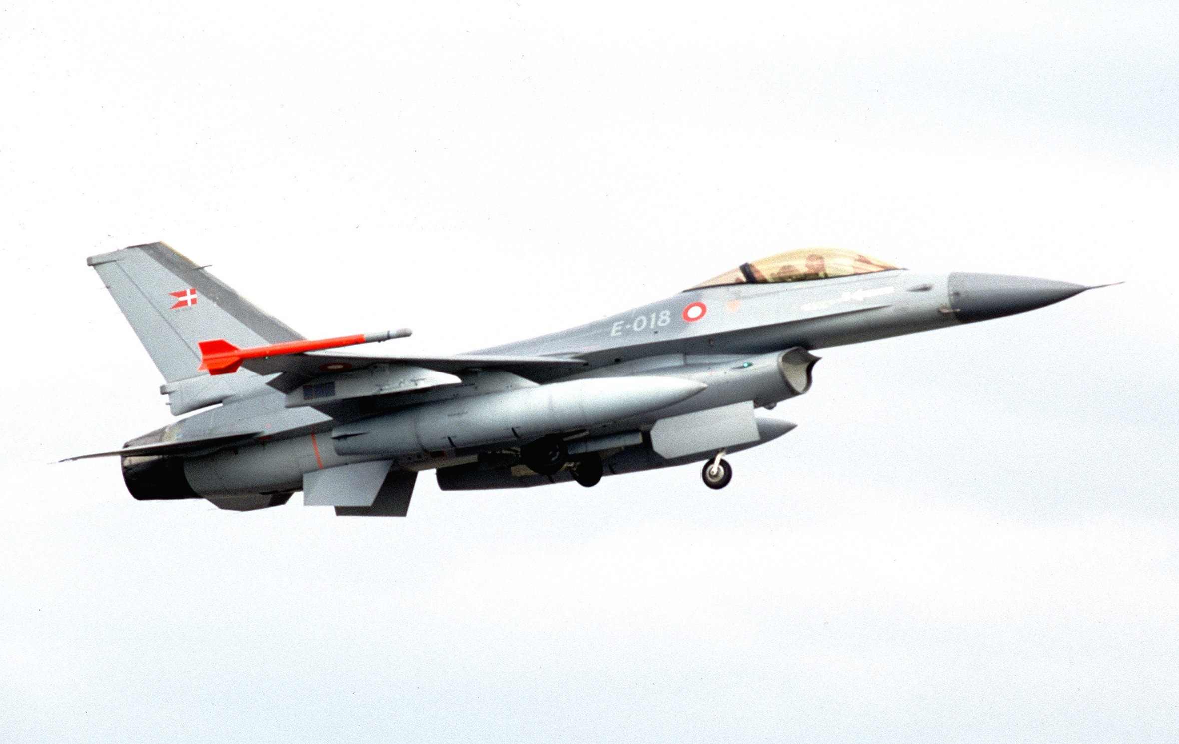 A Danish F-16 takes off in 1995.